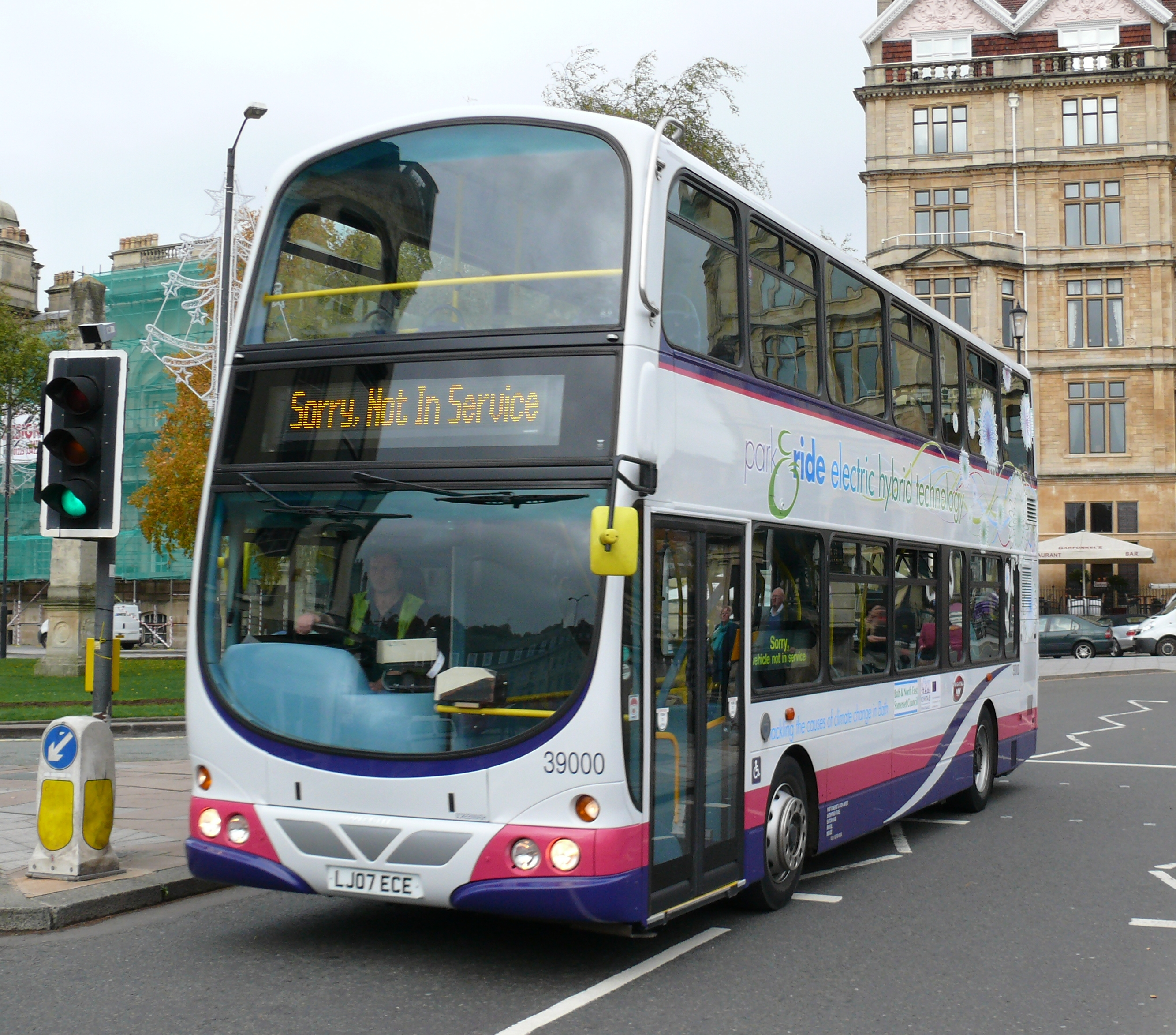 First Somerset & Avon bus 39000 (reg. LJ07ECE), a Wrightbus Gemini HEV diesel/electric hybrid demonstrator.